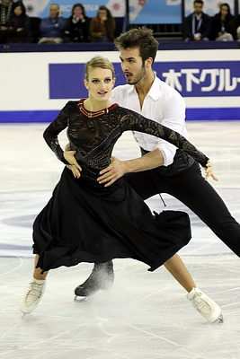 Gabriella Papadakis and Guillaume Cizeron at the 2014–15 Grand Prix of Figure Skating Final.